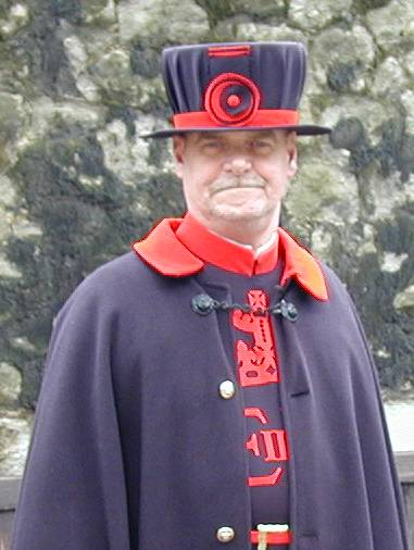 Beefeater at the Tower Of London, taken by Adrian Barnett with digital camera.